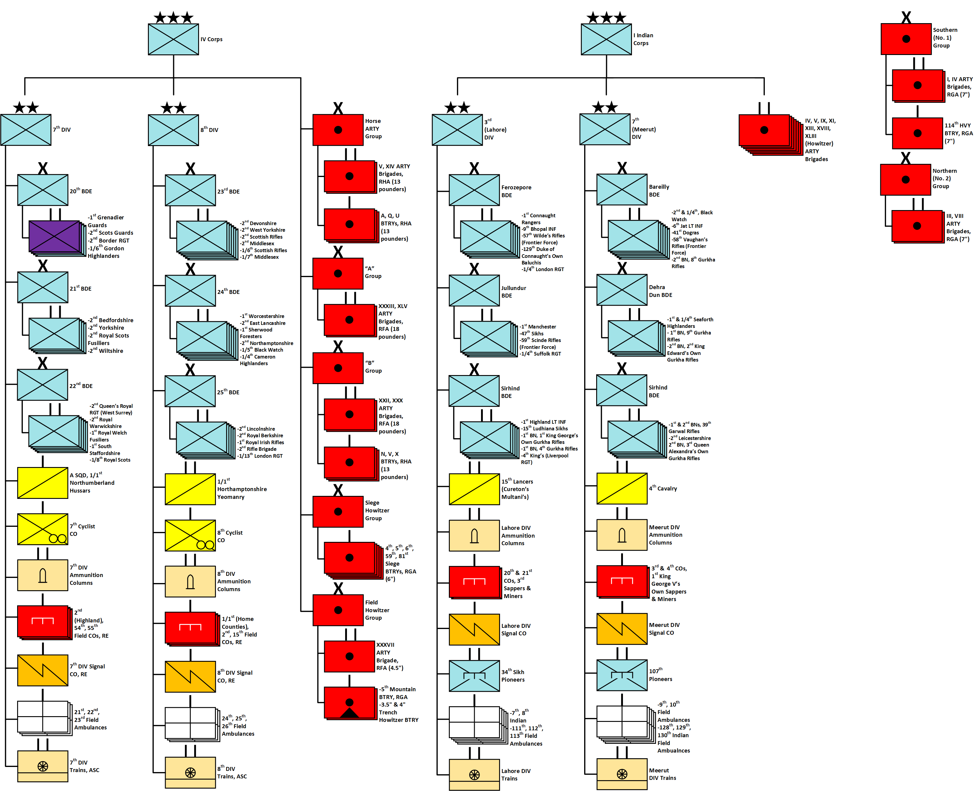 Organization of British forces during the Battle of Neuve Chapelle March 1915